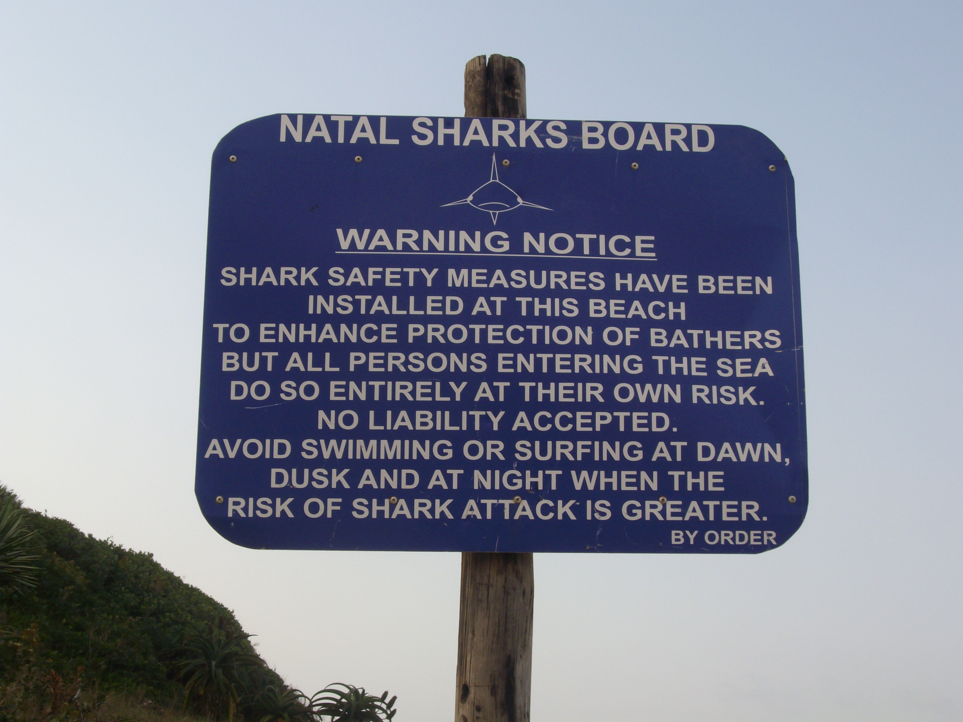 Sign warning about the presence of Sharks at beach (South Africa). The sign's text is below.